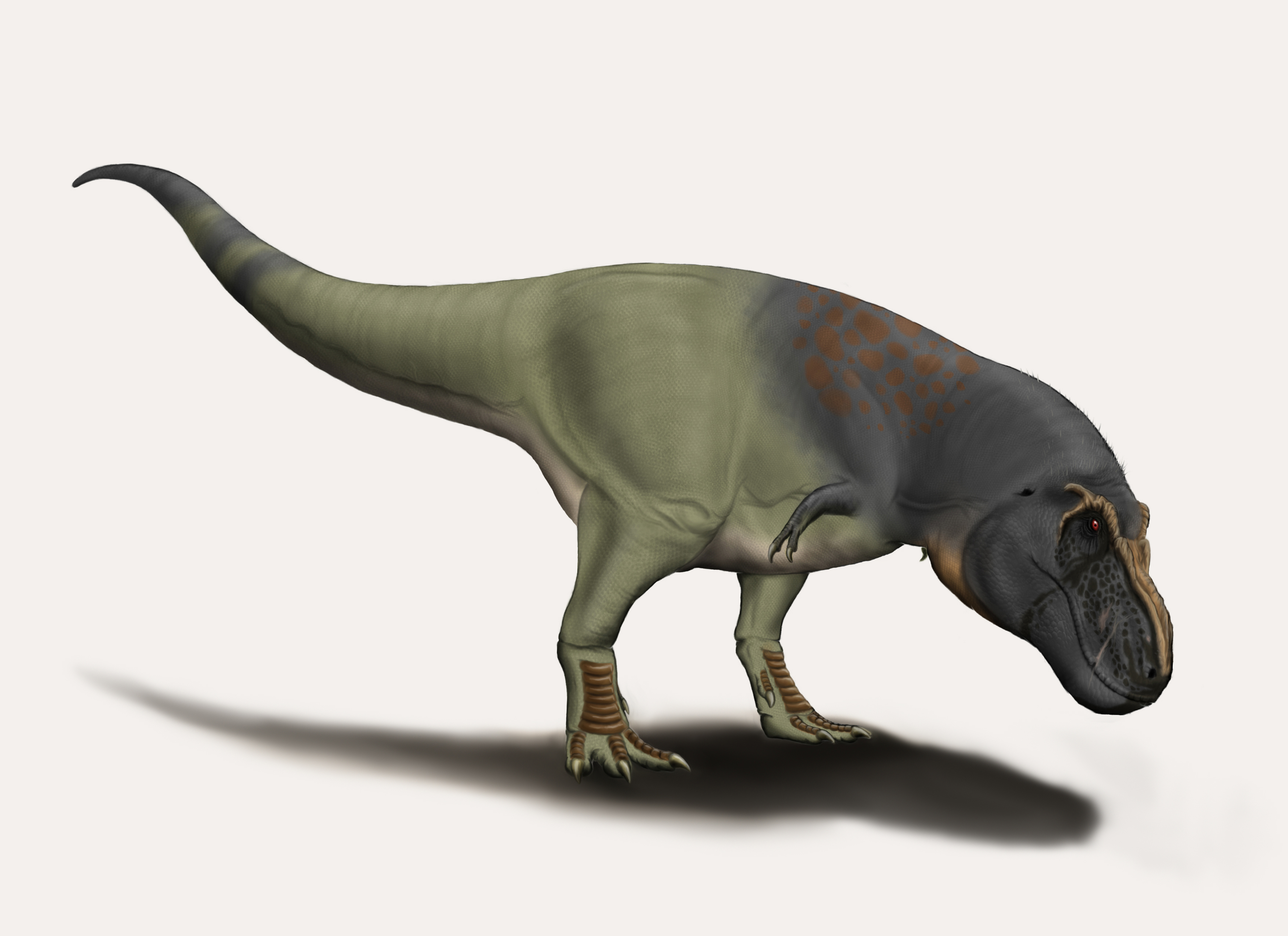 Tarbosaurus for the wiki